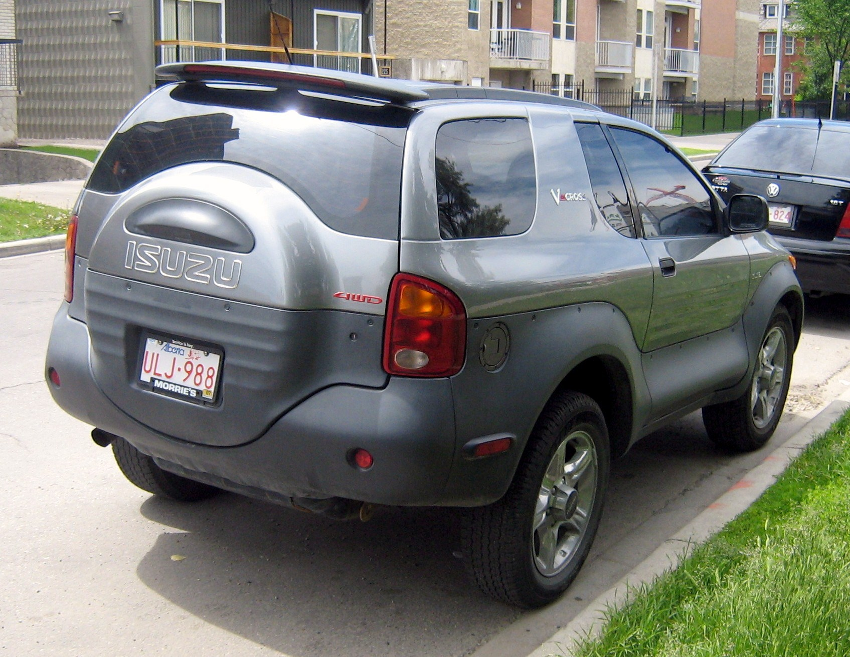 These were never sold in Canada are reasonably rare even in the US. This the second one I've ever seen.